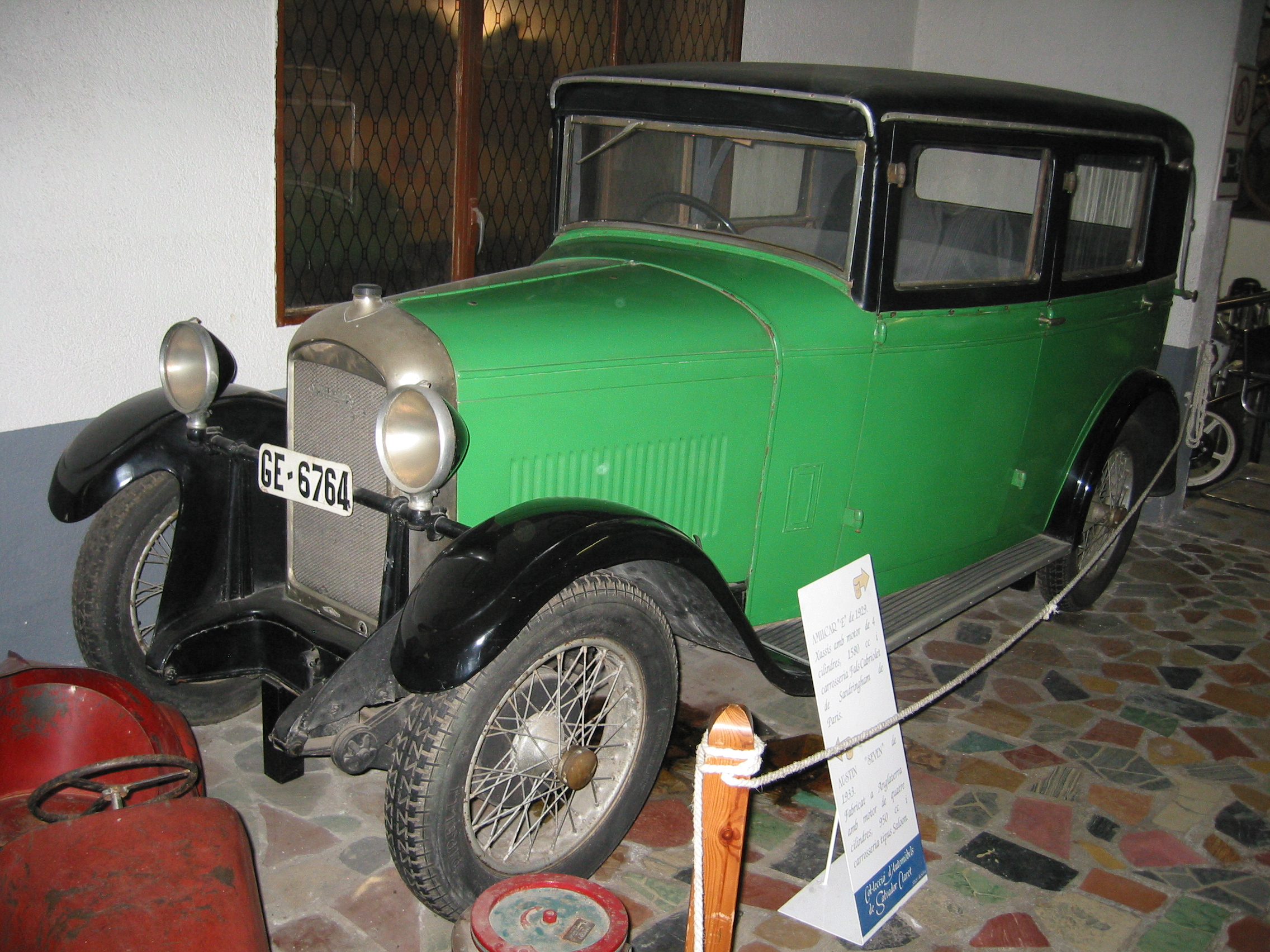 Amilcar Type M Limousine von Sandringham 1929 (Motor evtl. vom Amilcar Type E)